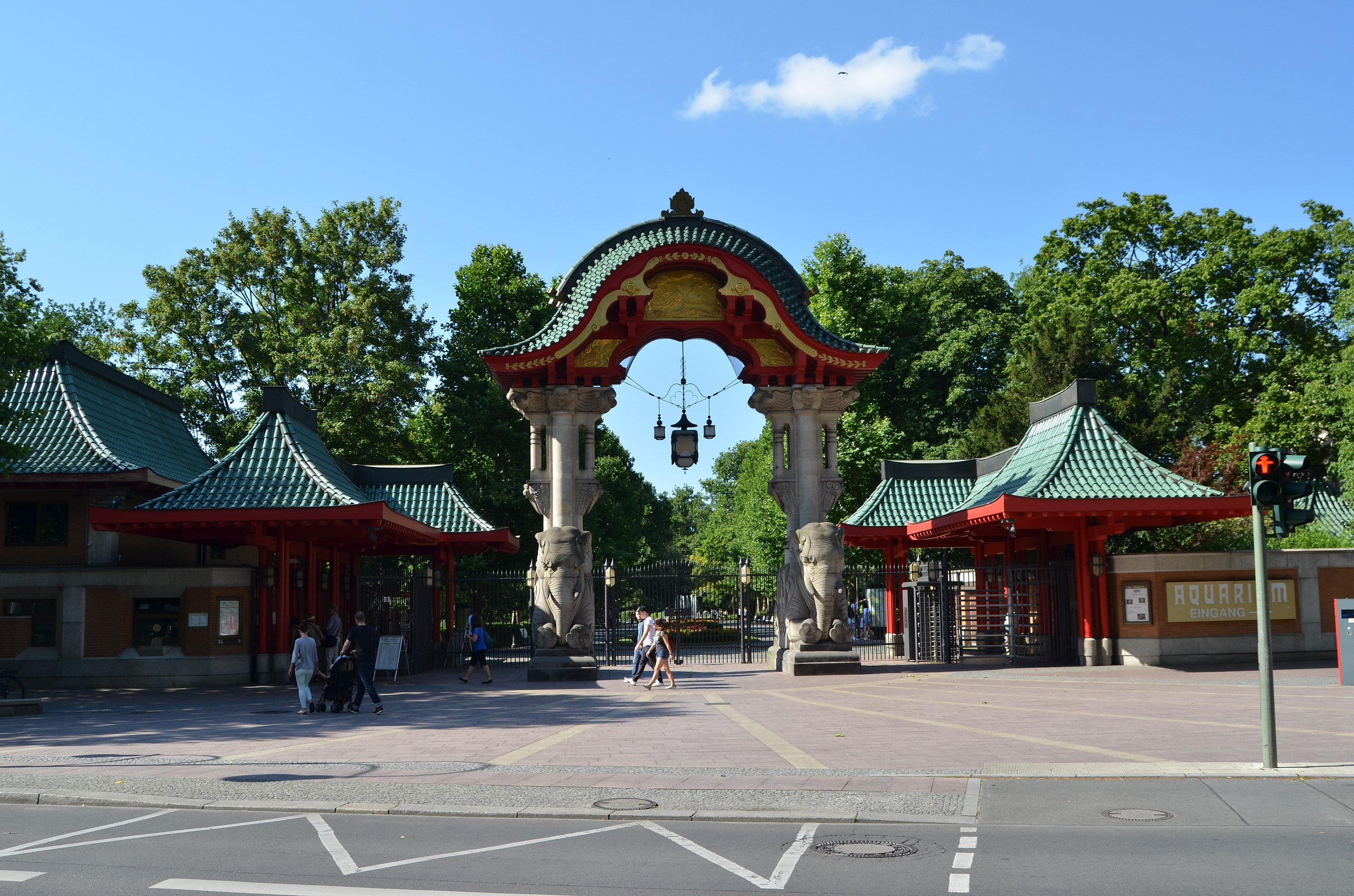 Berlin (Germany) – Zoological Garden – elephant gate This is a photograph of an architectural monument. ,T,005 This photograph was taken with a Nikon D7000